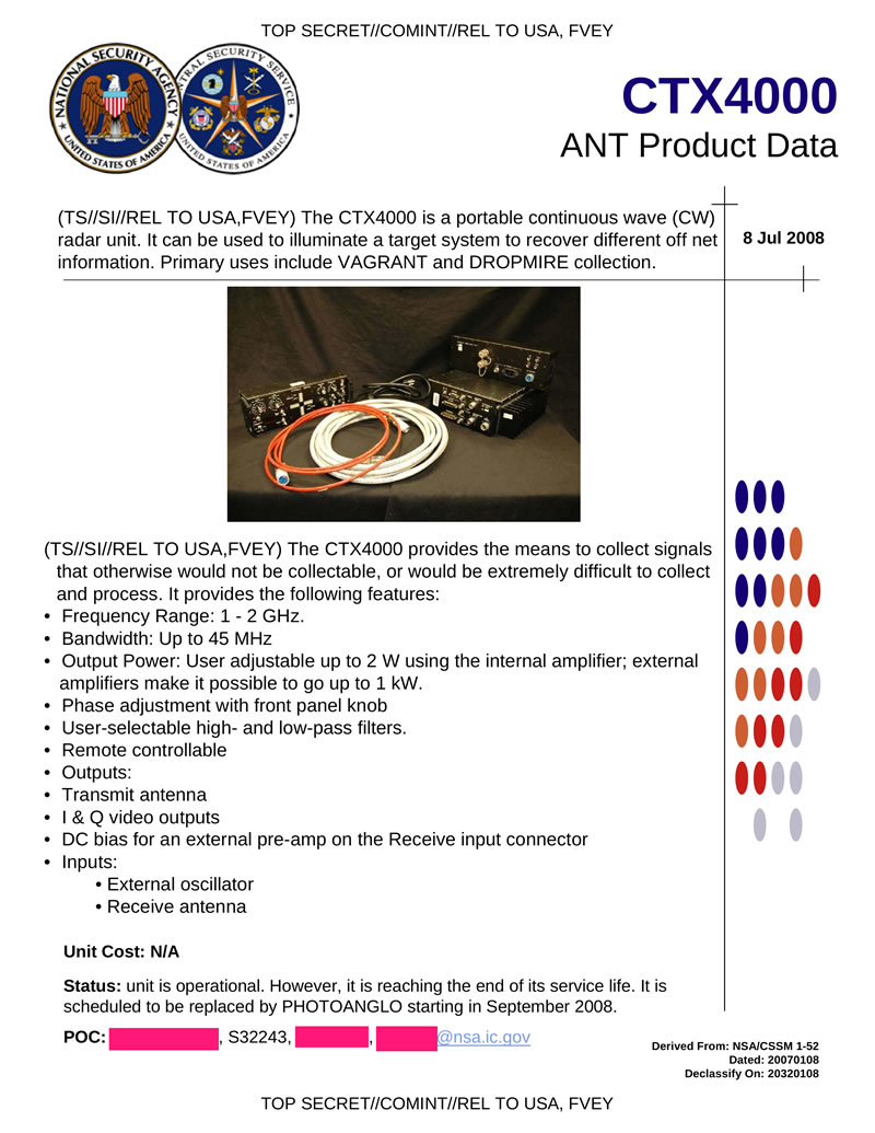 CTX4000 - Portable continuous-wave radar (CWR) unit